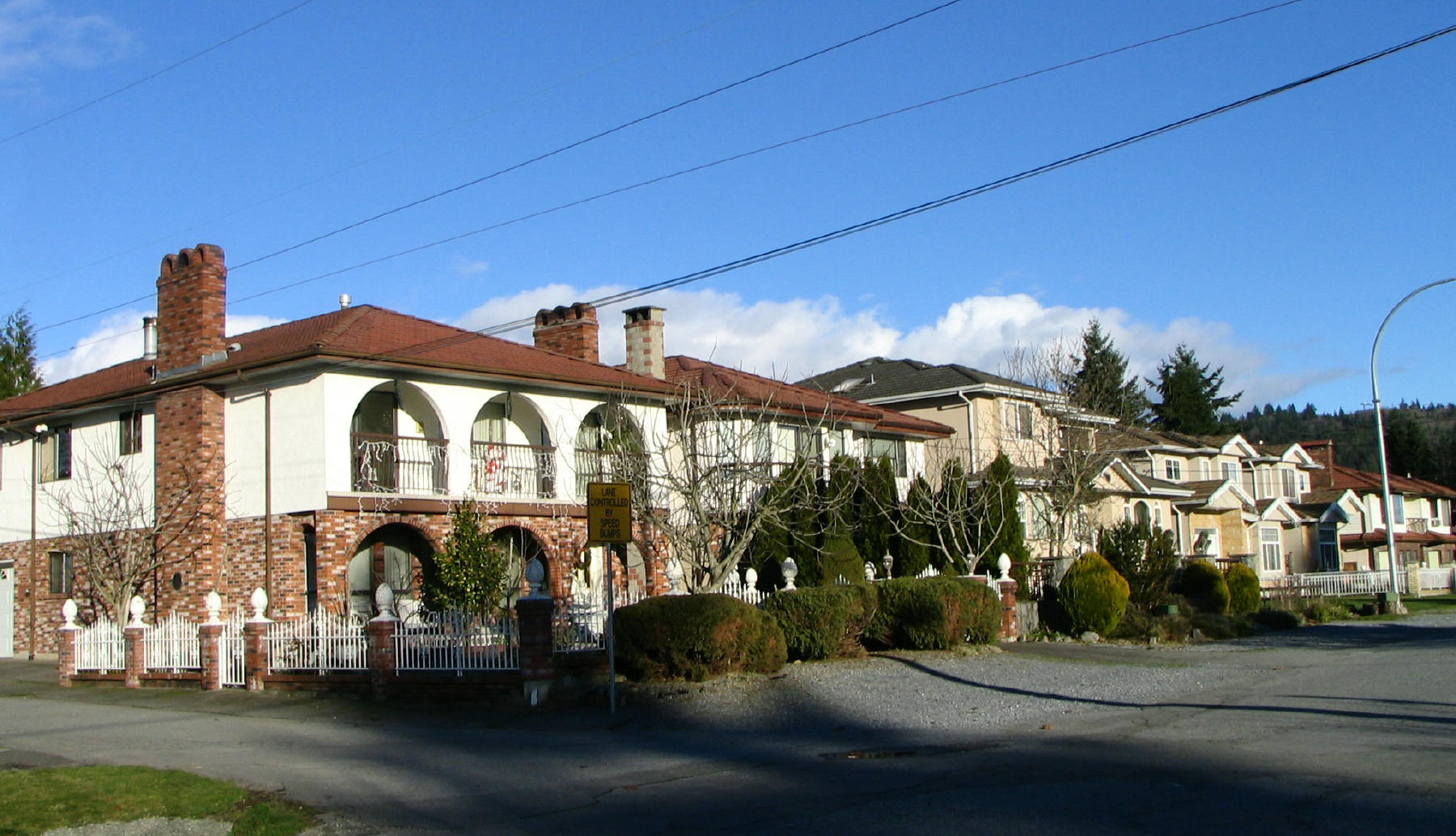 This image was taken by me, Flying Penguin of Pacific Spirit Photography in Burnaby, British Columbia, Canada.